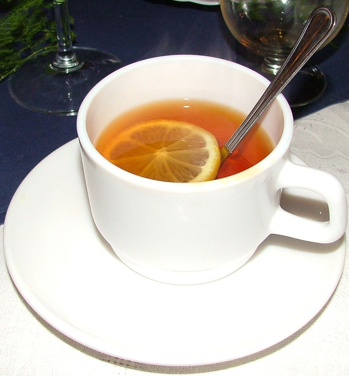 tea with a lemon